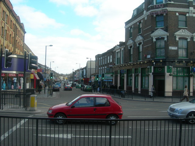 Blackstock Road N4. Junction with Seven Sisters Road, the pub is called The Blackstock.